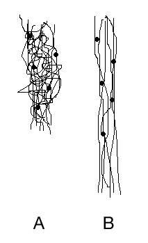 I made it myself using paint. Clearly.